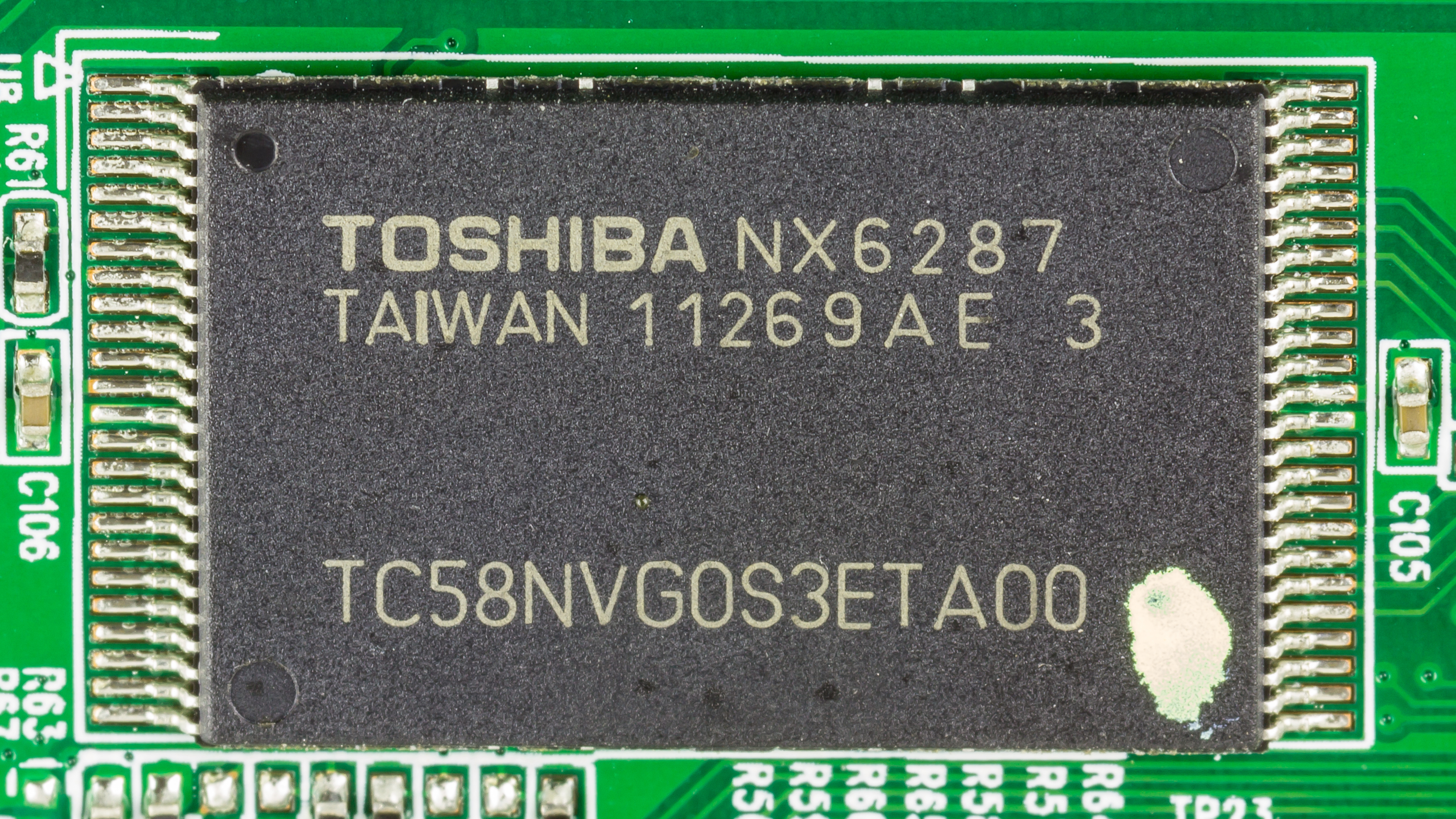 Philips BDP3280/12 - Toshiba TC58NVG0S3ETA00 - GBIT (128M × 8 BIT) CMOS NAND E²PROM. Package: TSOP I 48